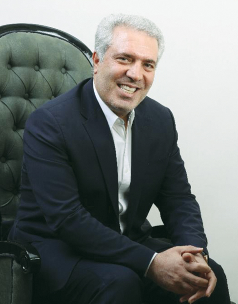 علی اصغر مونسان ـ معاون رئیس‌جمهور و رئیس سازمان میراث فرهنگی، صنایع دستی و گردشگری